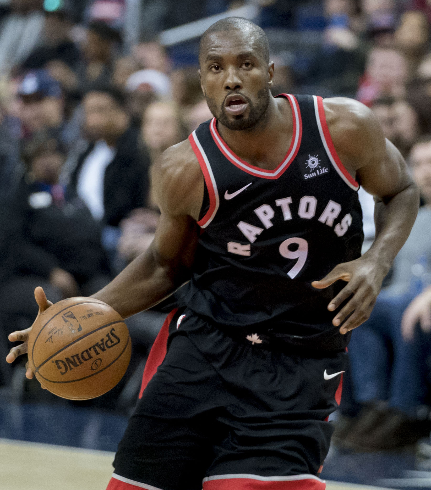 Serge Ibaka in action as a member of the Toronto Raptors in 2018.